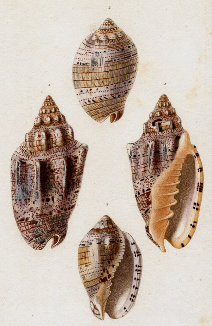 Seashells of west Atlantic, Volutidae; number one - Voluta ebraea Linnaeus, 1758 (Northeast Region, Brazil) and number two - Voluta musica Linnaeus, 1758 (Caribbean).